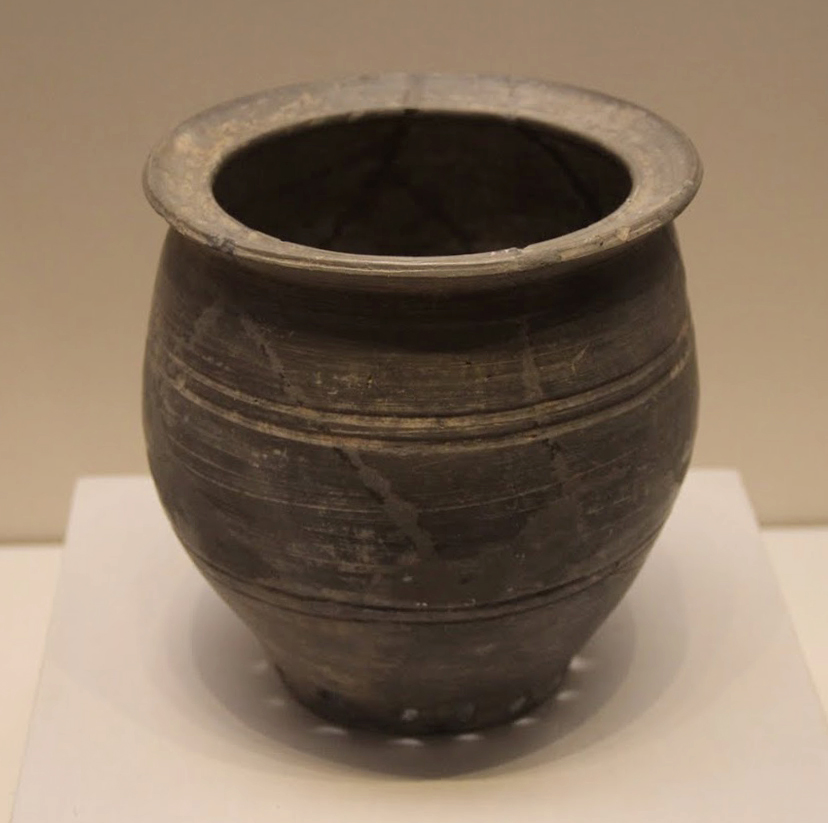 Neolithic pottery zeng (steamer), Sanliqiao Culture, Longshan culturePhotographs by Gary Lee Todd in middle Huanghe. Shaanxian, Henan, 1957. National Museum of Chinan, Beijing